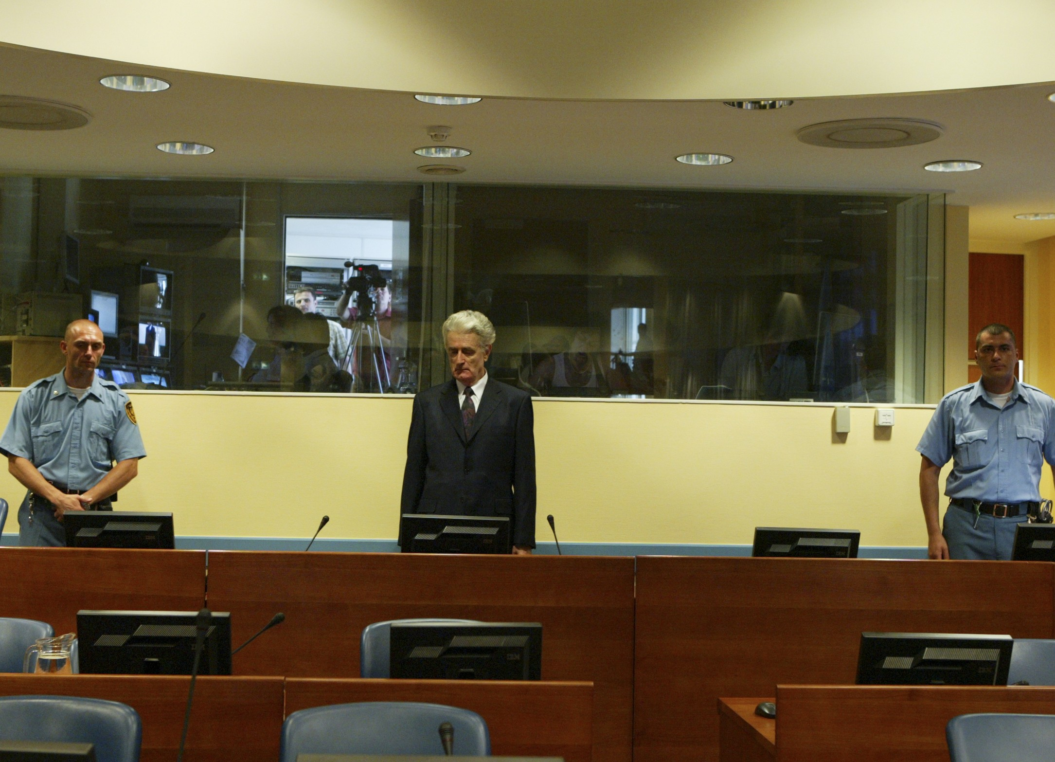 Radovan Karadžić at his initial appearance in court.